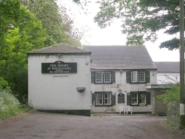 The Priory public house at Whitechapel - Whitechapel Road, Cleckheaton, West Yorkshire, England.